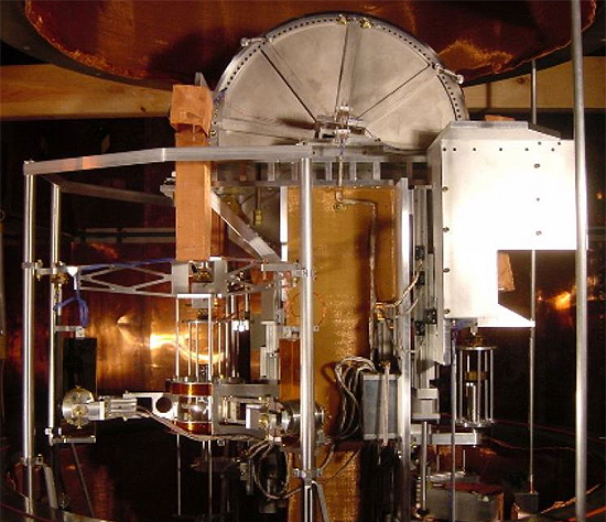 The Watt balance at the US National Institute of Standards and Technology (NIST). This is an experimental, extremely accurate mass measuring instrument. The vacuum chamber dome, above the apparatus, descends during use so it operates in vacuum. The Watt balance measures mass by comparing it to atomic units, Planck's constant and the speed of light. It is being developed to provide a more accurate standard of mass than the current one. Currently the primary standard defining all the world's mass and weight units is the International Prototype Kilogram (IPK), a cylinder of platinum-iridium alloy kept in a vault at Sevres, France. It is the only unit defined by a physical artifact, so it is vulnerable to damage and deterioration over the years, and in fact has been found to vary in mass. When it is perfected, the Watt balance will be used to "weigh" the IPK, defining the kilogram by atomic units so a physical prototype will not be needed, creating an "electronically" defined kilogram.